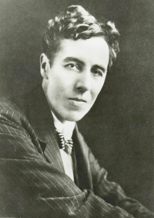 Portrait of Ronald Firbank, ca. 1917